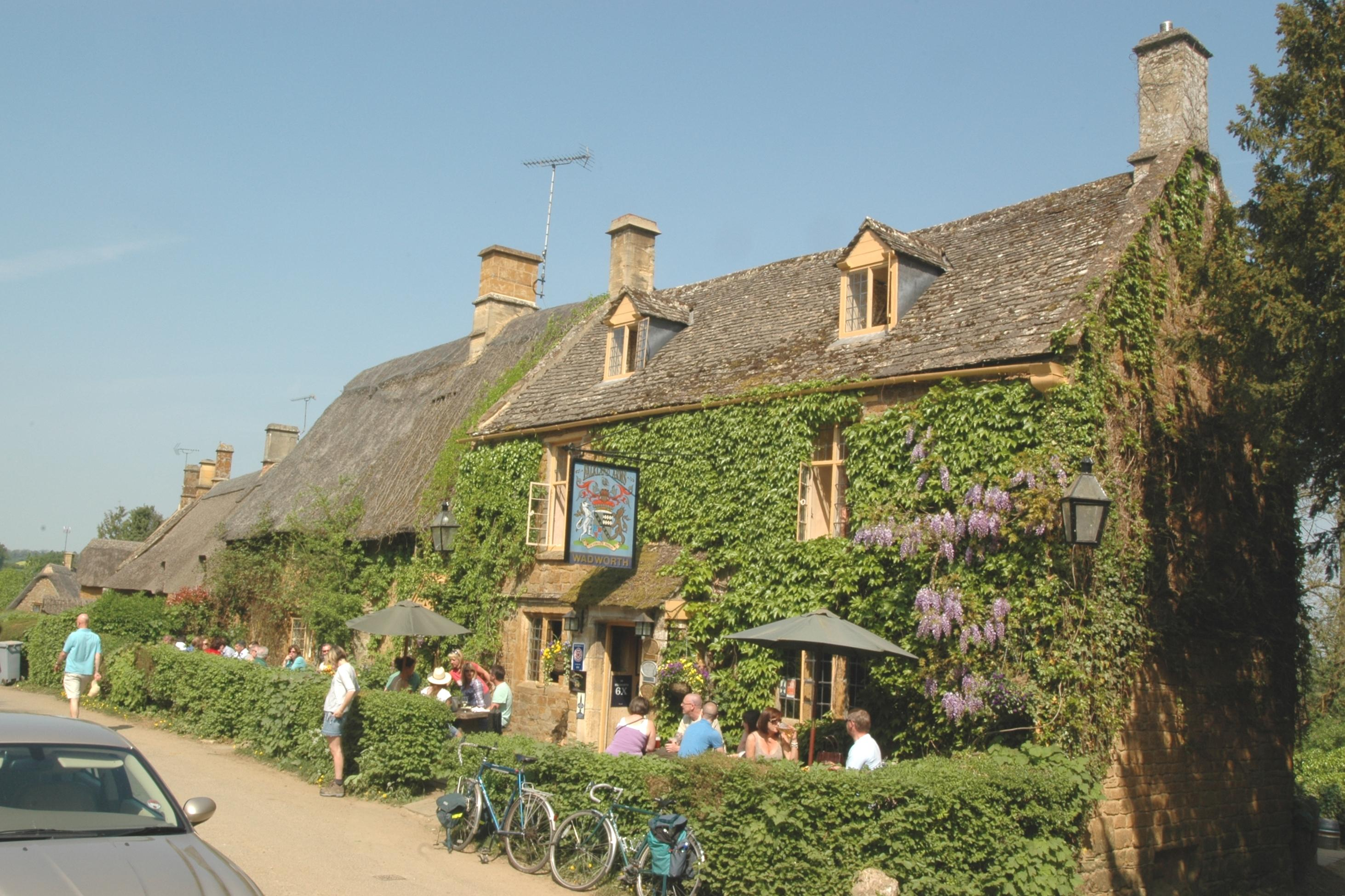 The Falkland Arms public house, Old Road, Great Tew, Oxfordshire, viewed from the southwest.